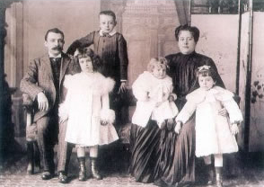 Bartholomew Sacarello, founder of Sacarello's in Gibraltar, and his family.